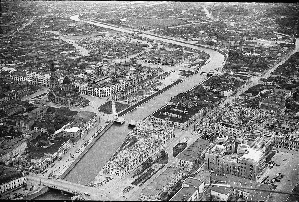 Charkov (1941). Lopan Bridge. Kupechesky Bridge. Bursatsky Bridge. Rogatinsky Bridge.